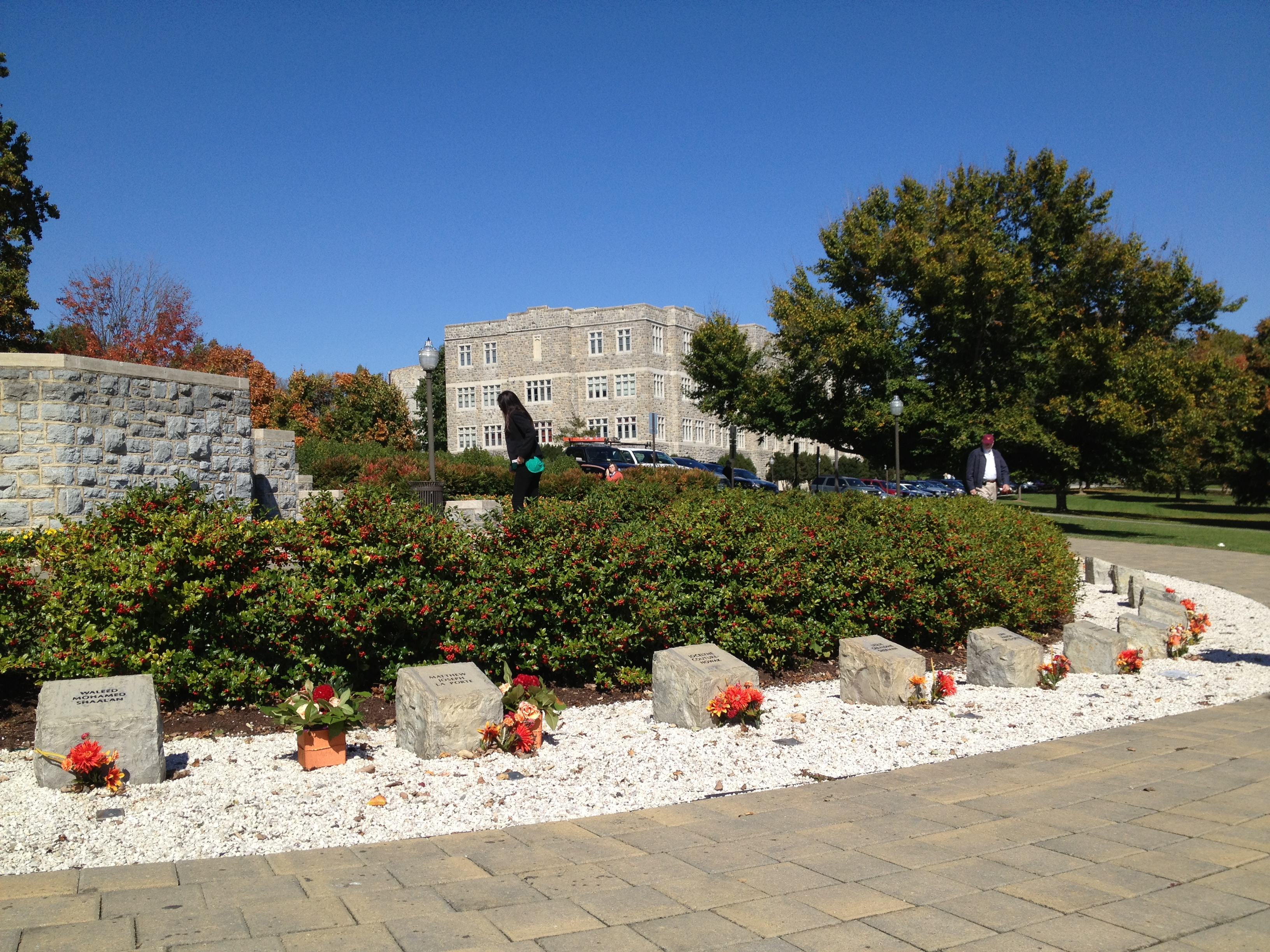 The April 16 Memorial at Virginia Tech